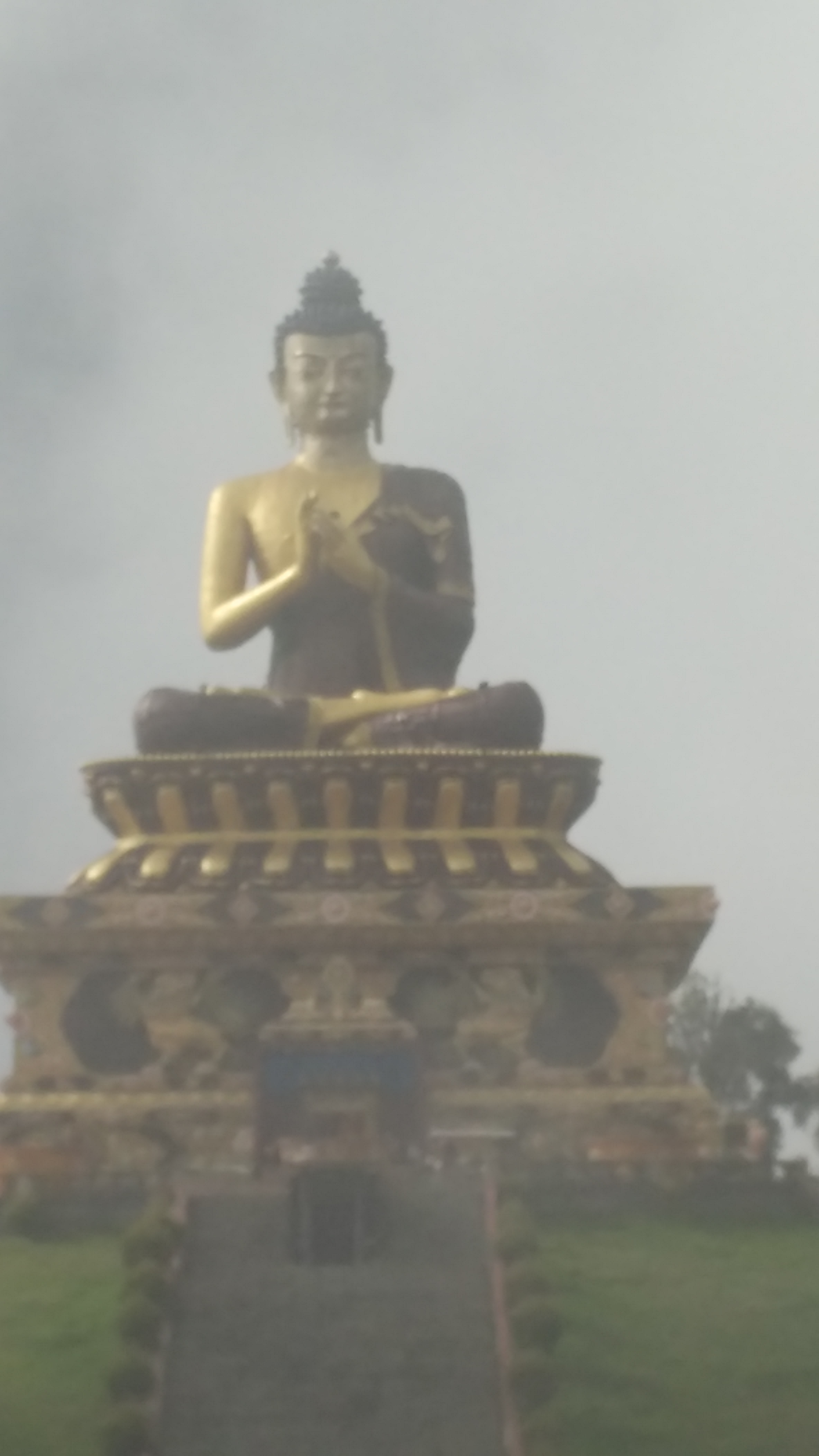 Lord Buddha amidst clouds and hills in Sikkim, India